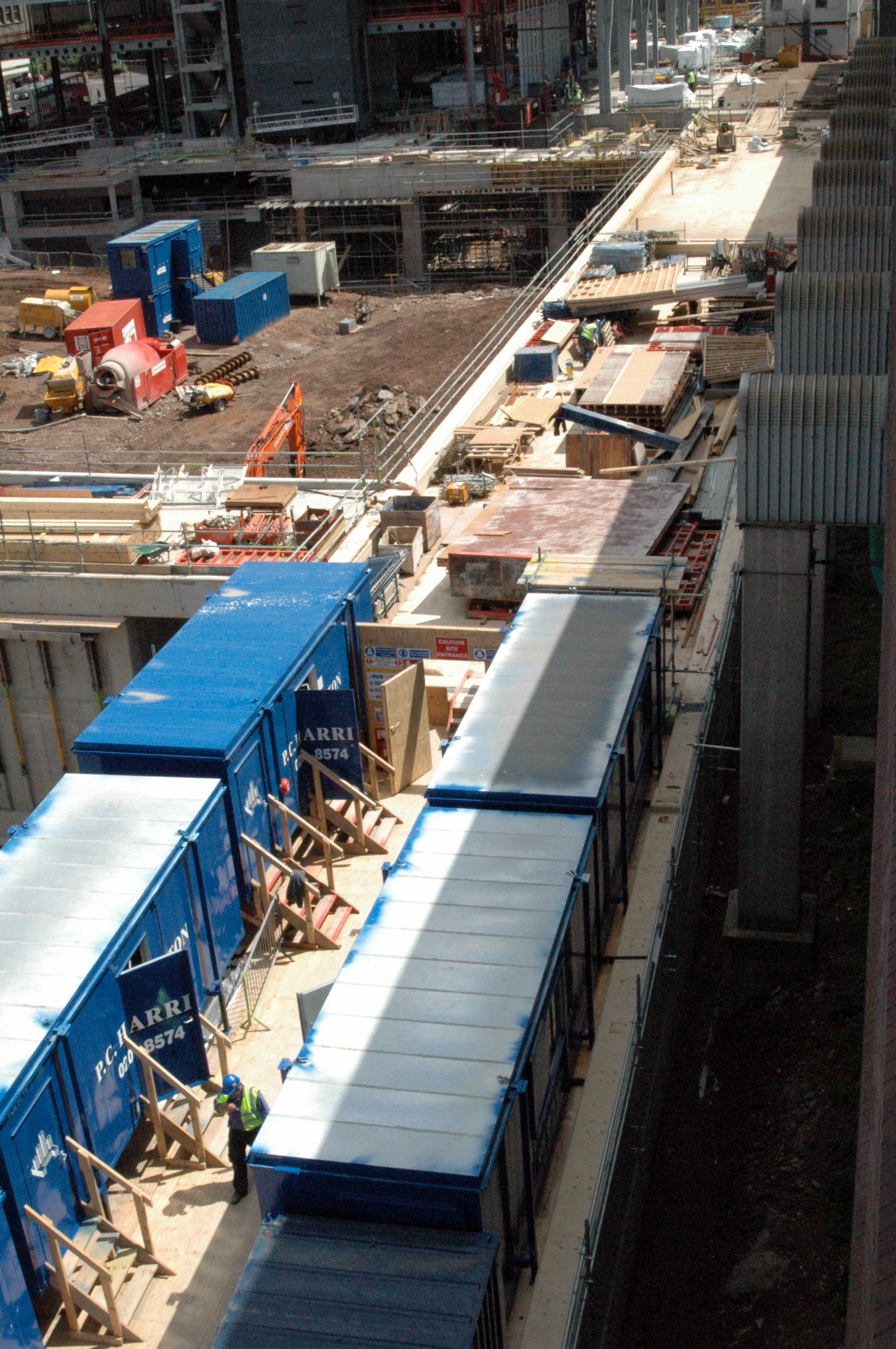 This is Phase 1, the viaduct, of the Snowhill development in Birmingham, England. The viaduct will carry the Midland Metro into Birmingham city centre.